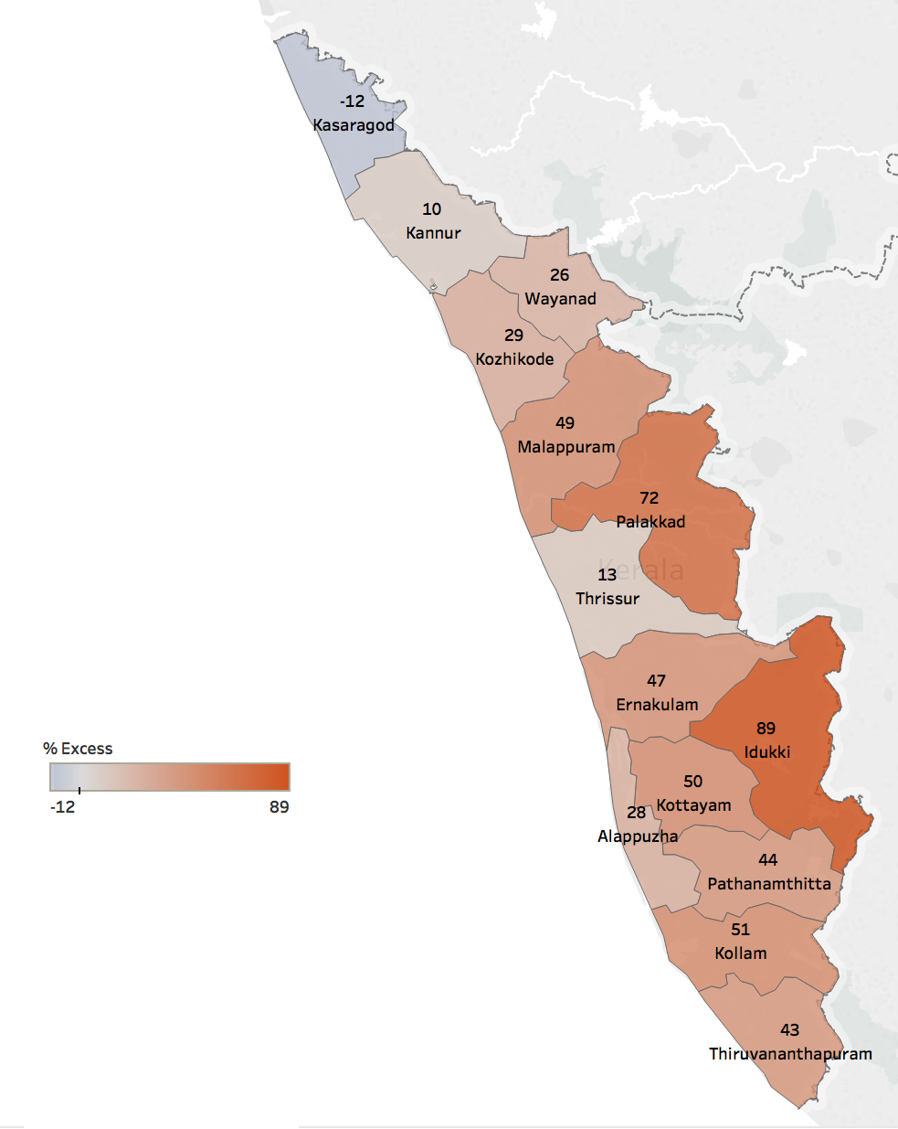 Period : 1 June 2018 – 22 August 2018 Data